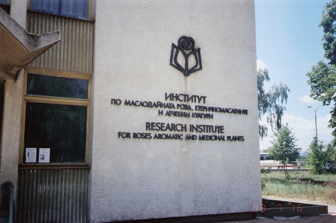 research institute for roses aromtic, roses vally,kazanlak,bulgaria